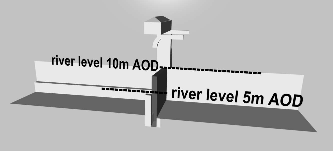 a side view cutout without retaing wall of the river foss barrier